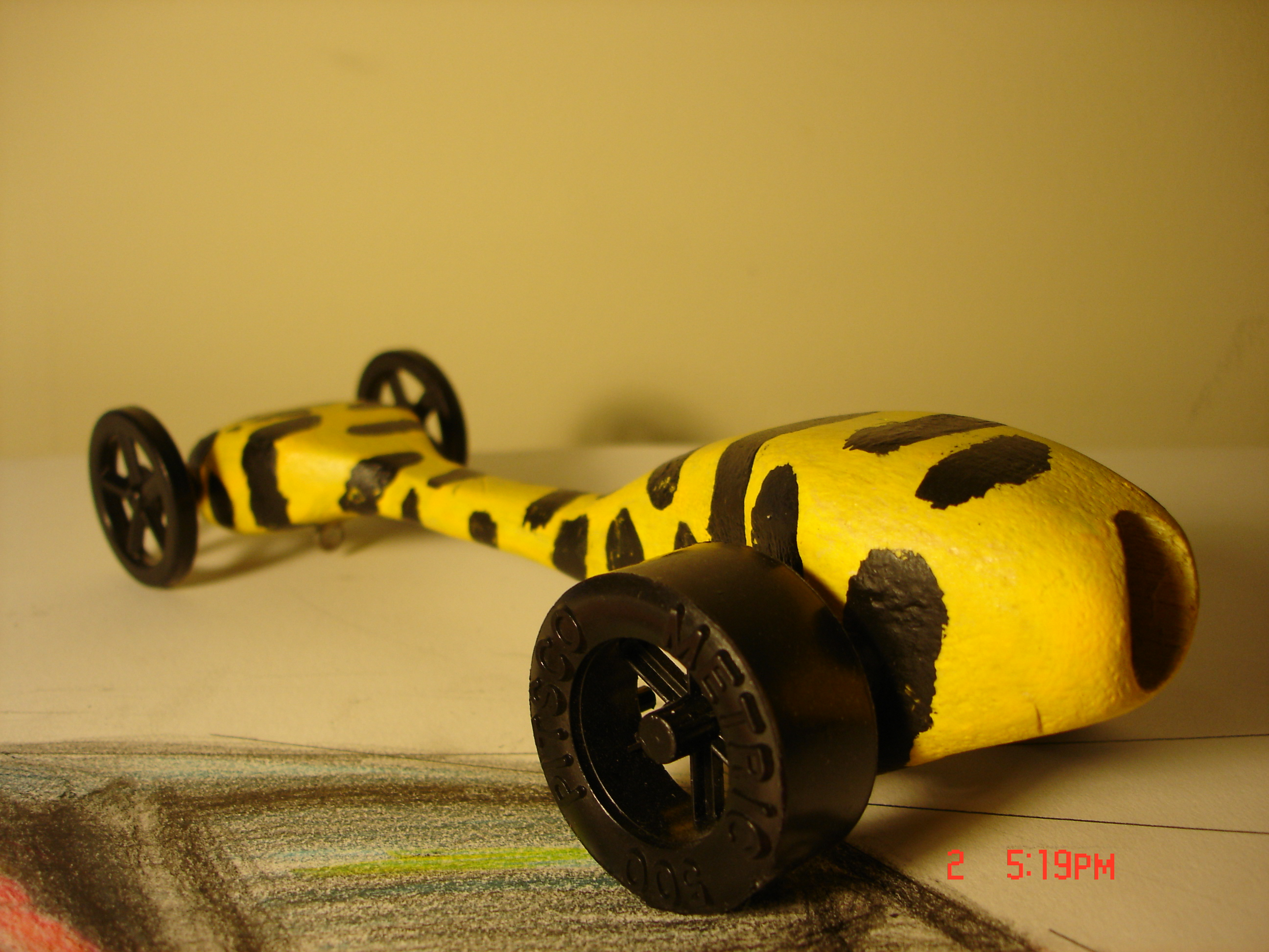 Summary: Rear view of the CO2 Dragster wooden car.